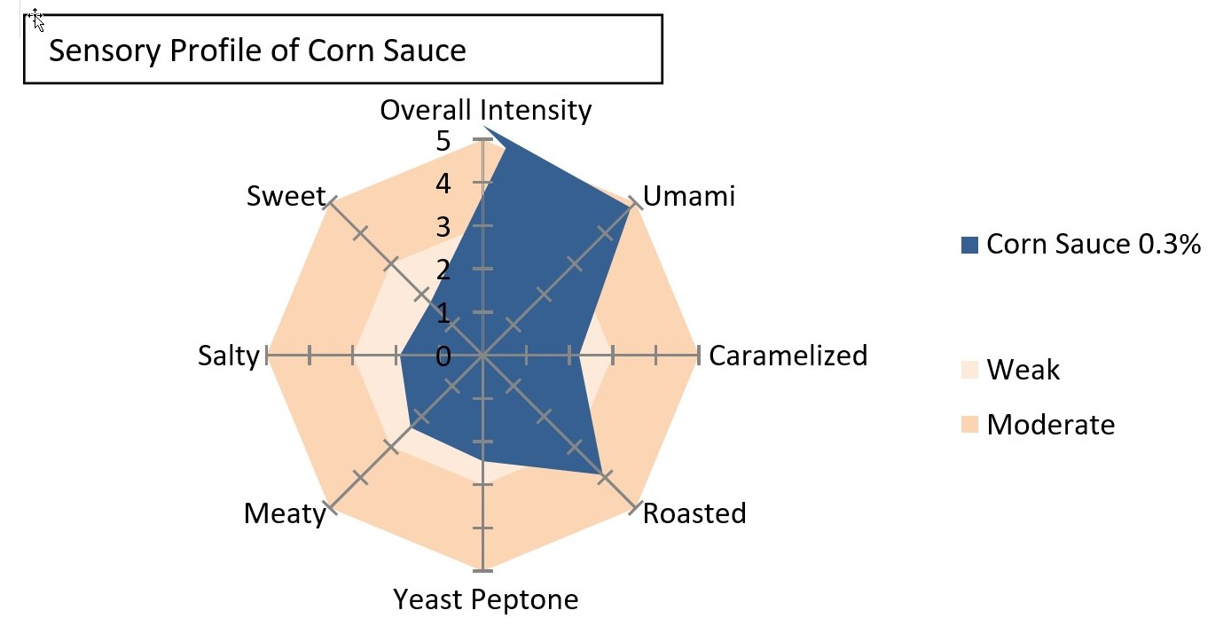 A sensory analyses with a trained sensory panel tasting corn sauce in water